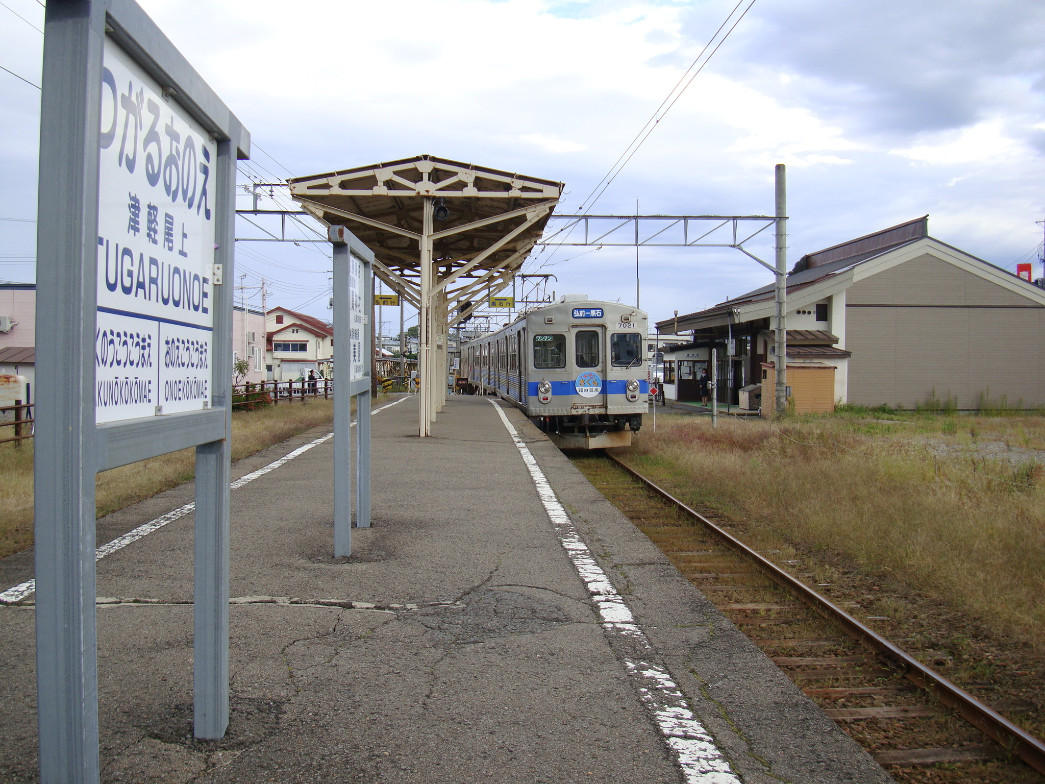 Tsugaru-Onoe Station